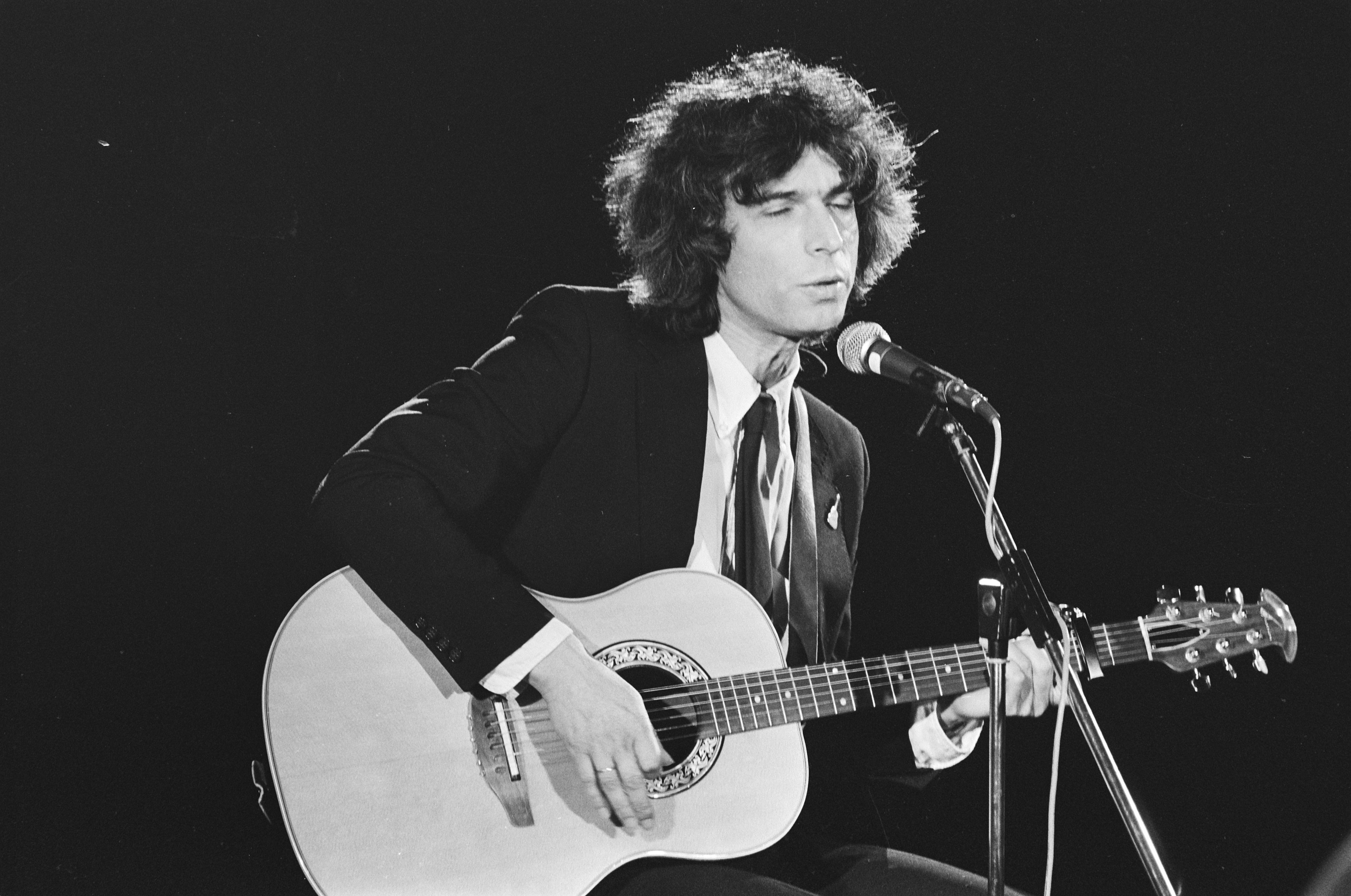 Recordings of the Dutch television program “1st of May” with some left wing politicians. The famous Dutch artist Boudewijn Groot was performing.